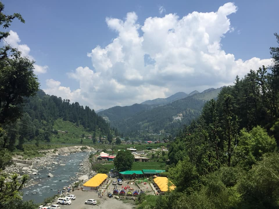 Barot Valley ,Mandi,Himachal Pardesh,India .Barot is a village of Mandi district which was developed in 1920s for Shanan Hydel Project.Now it is a tourist location in Mandi district in the Indian state of Himachal Pradesh. It was was difficult to access until 1975 when a road was opened. It is situated at a distance of 40 km from Jogindernagar and 66 km from Mandi, the district headquarters.